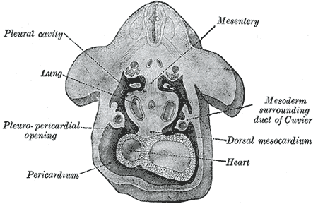 Figure obtained by combining several successive sections of a human embryo of about the fourth week (From Kollmann.) The upper arrow is in the pleuroperitoneal opening, the lower in the pleuropericardial.